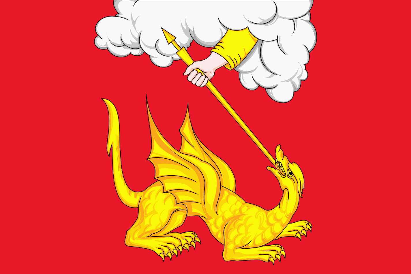 Flag of Yegoryevsk, Moscow Region, Russia